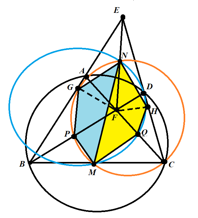 Showing that MPHN and MQHN are cyclic